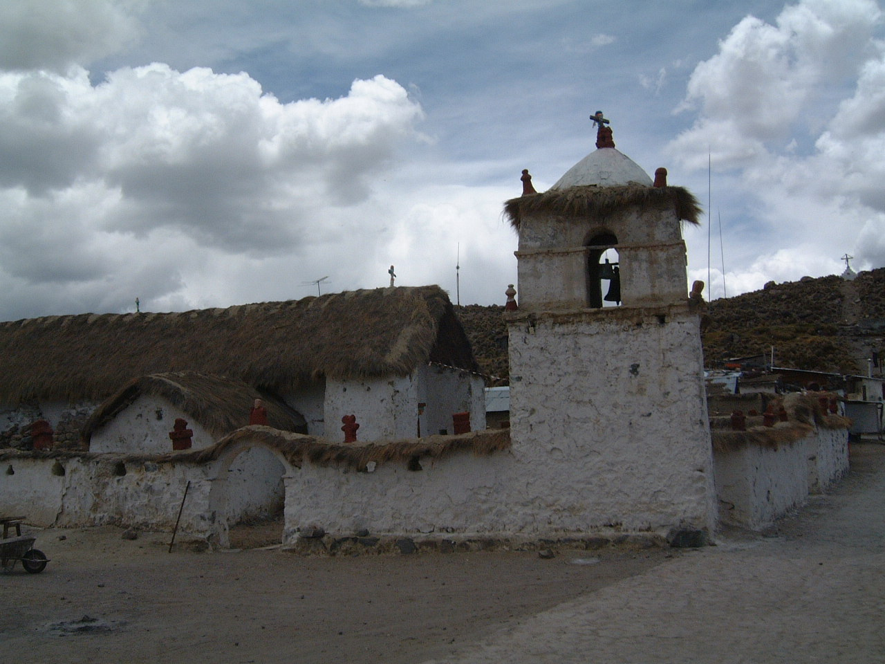 Church in Parinacota, Chile 12.11.2005 By Herman Luyken